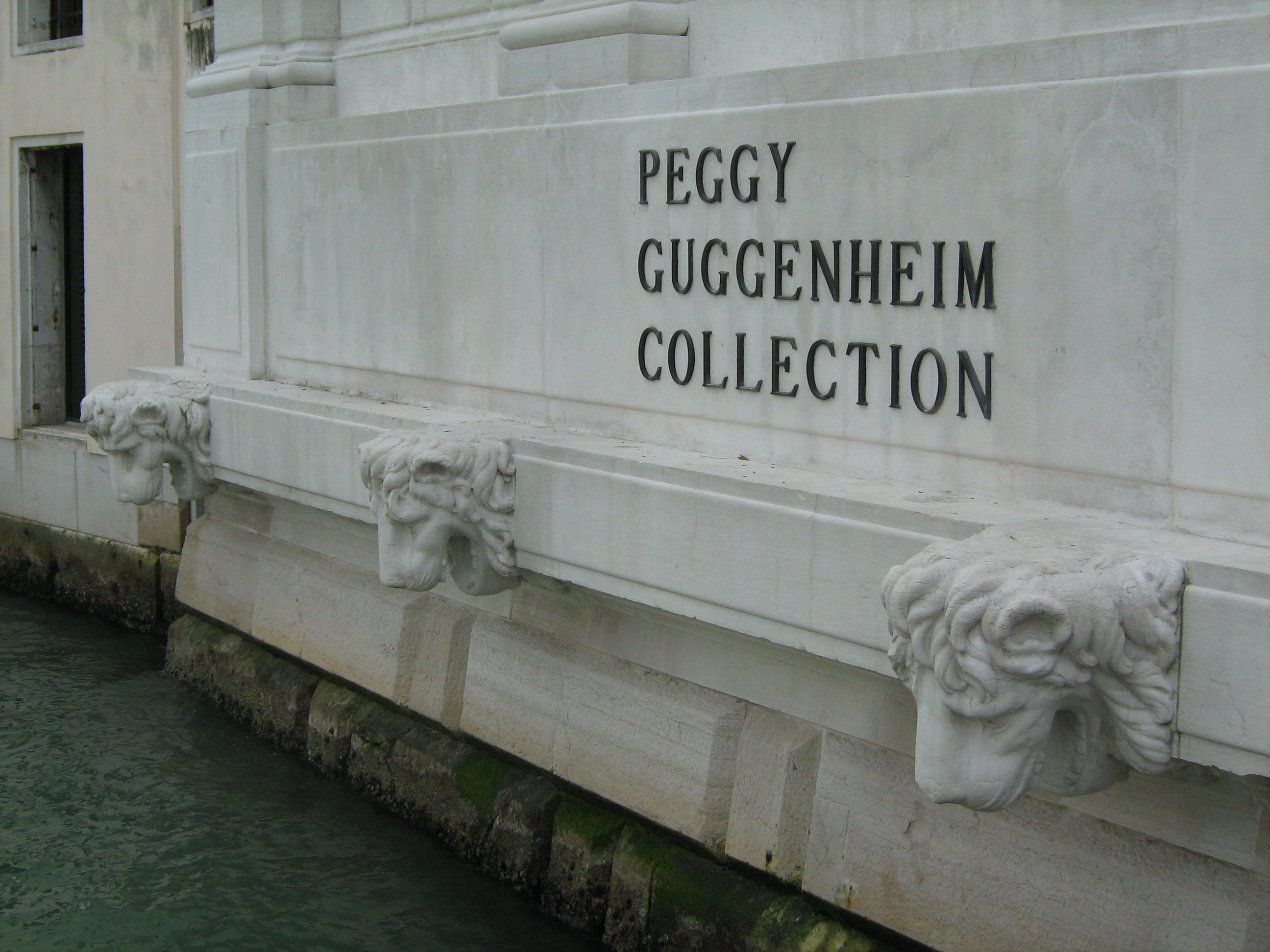 The facade towards Canal Grande on the Peggy Guggenheim Collection in Venice